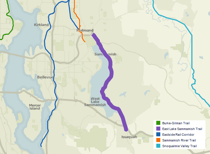 East Lake Sammamish Trail route map. Created with Tableau.